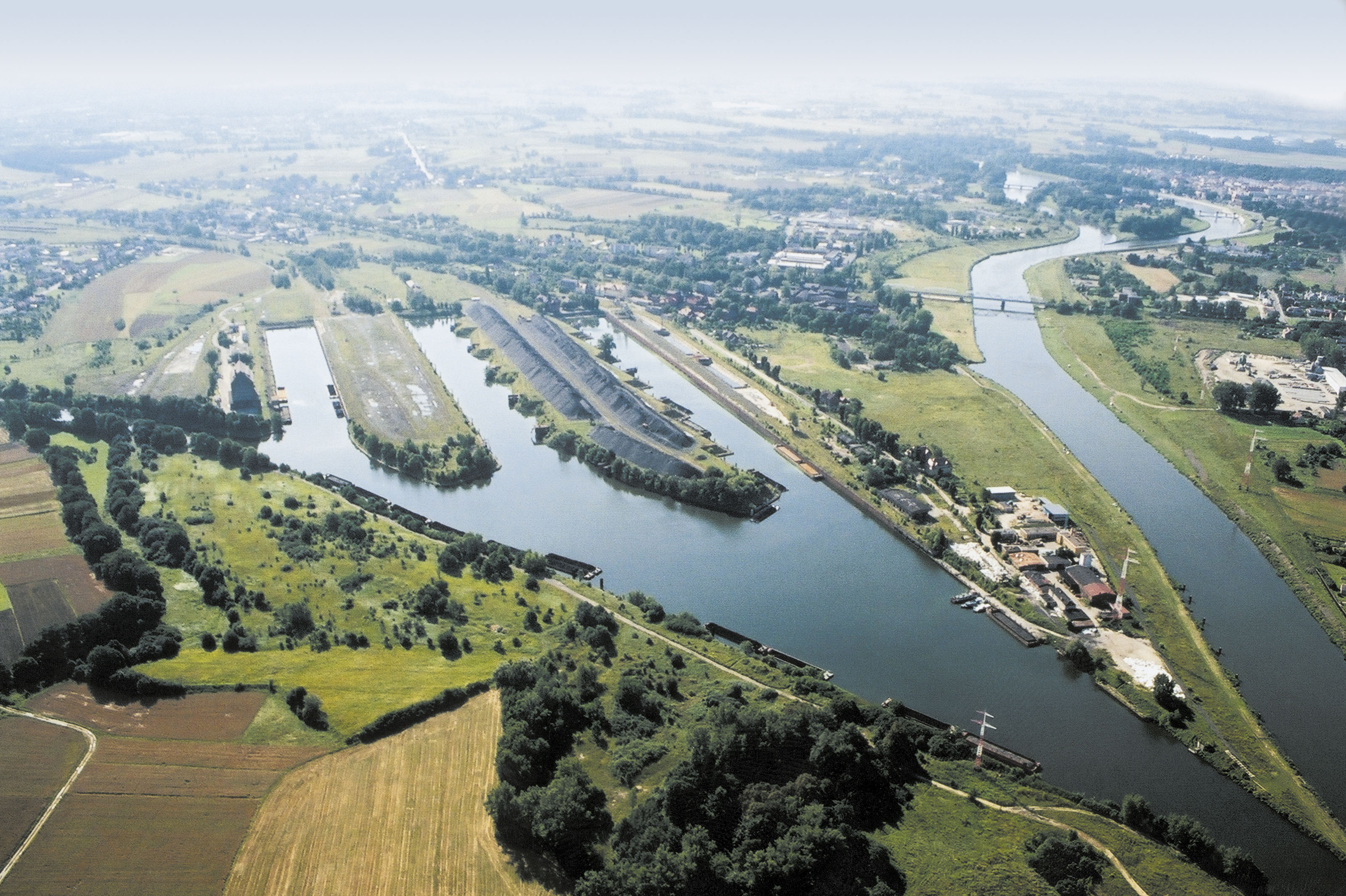 The port of Kózle. The picture shows the mouth of the Gliwice Canal disappearing in the bank line. Behind, on the right, the lock of Kozlí on the Oder.